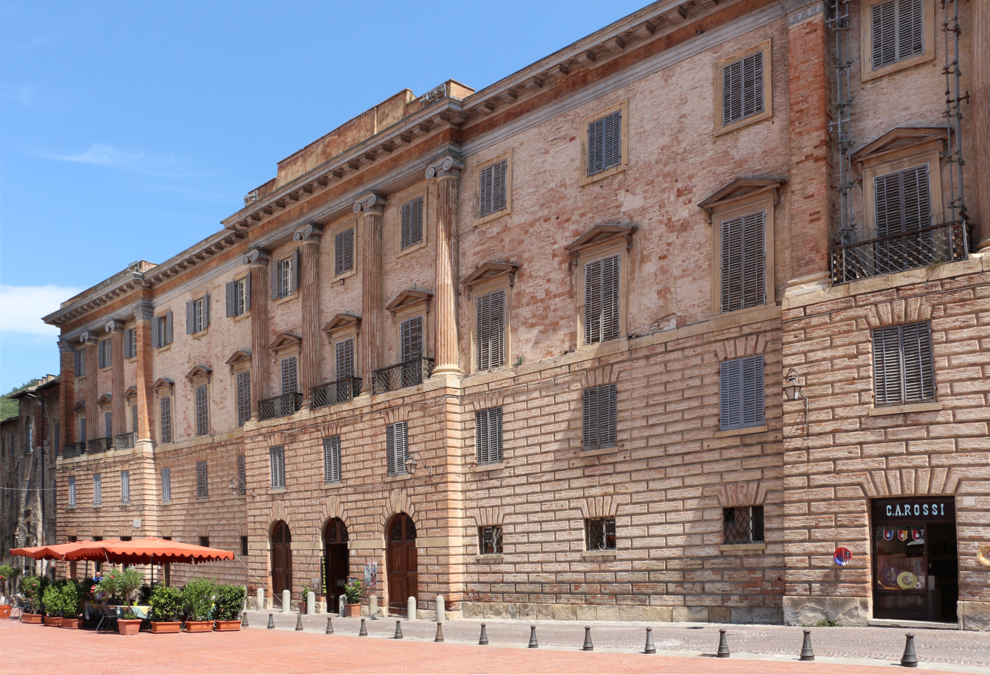 Gubbio